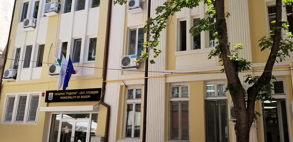 City Hall Rodopy, Plovdiv